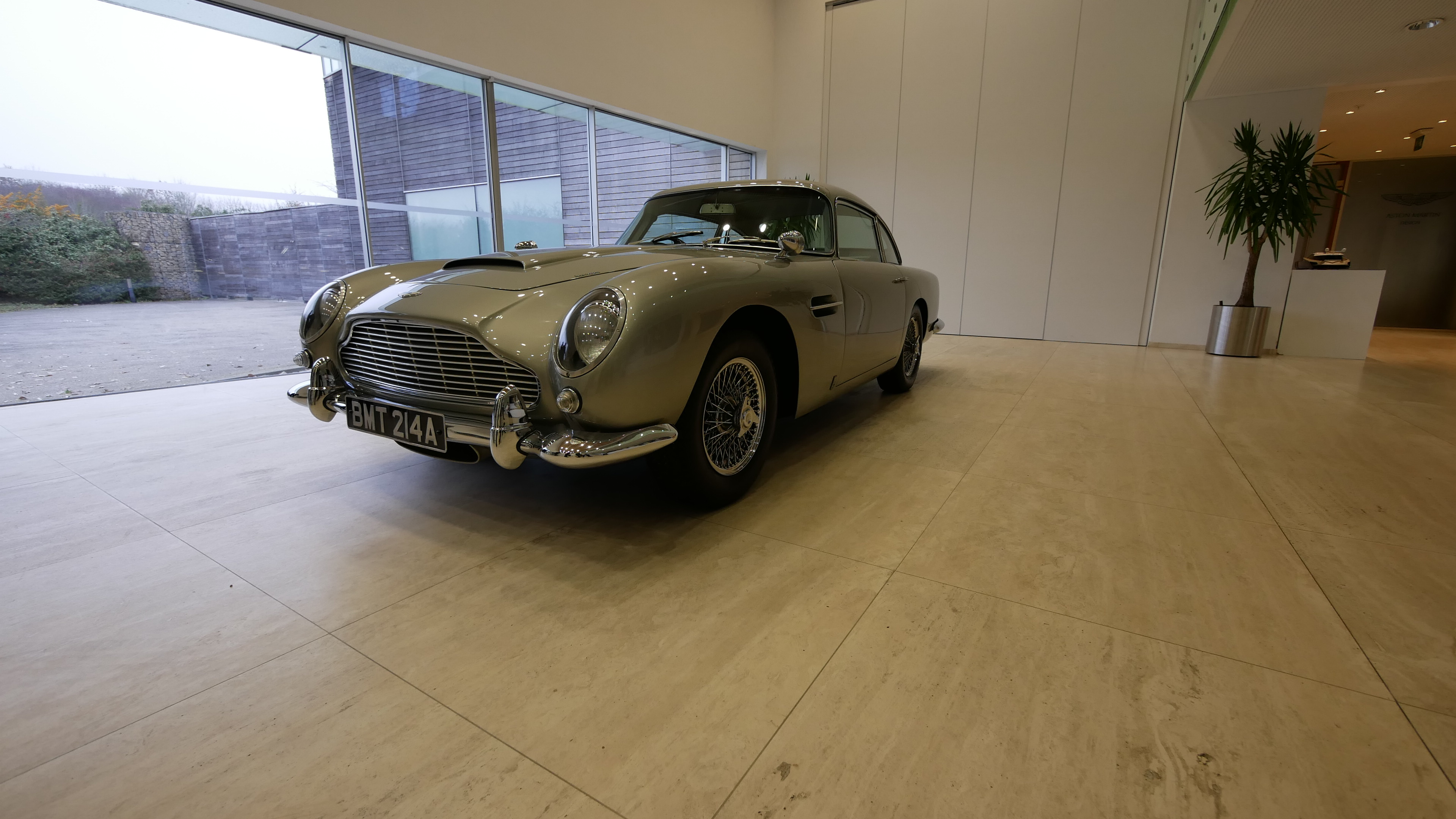 James Bond's Aston Martin DB5, as used in the Goldeneye movie. Picture taken in the lobby of Aston Martin's HQ in Gaydon, UK